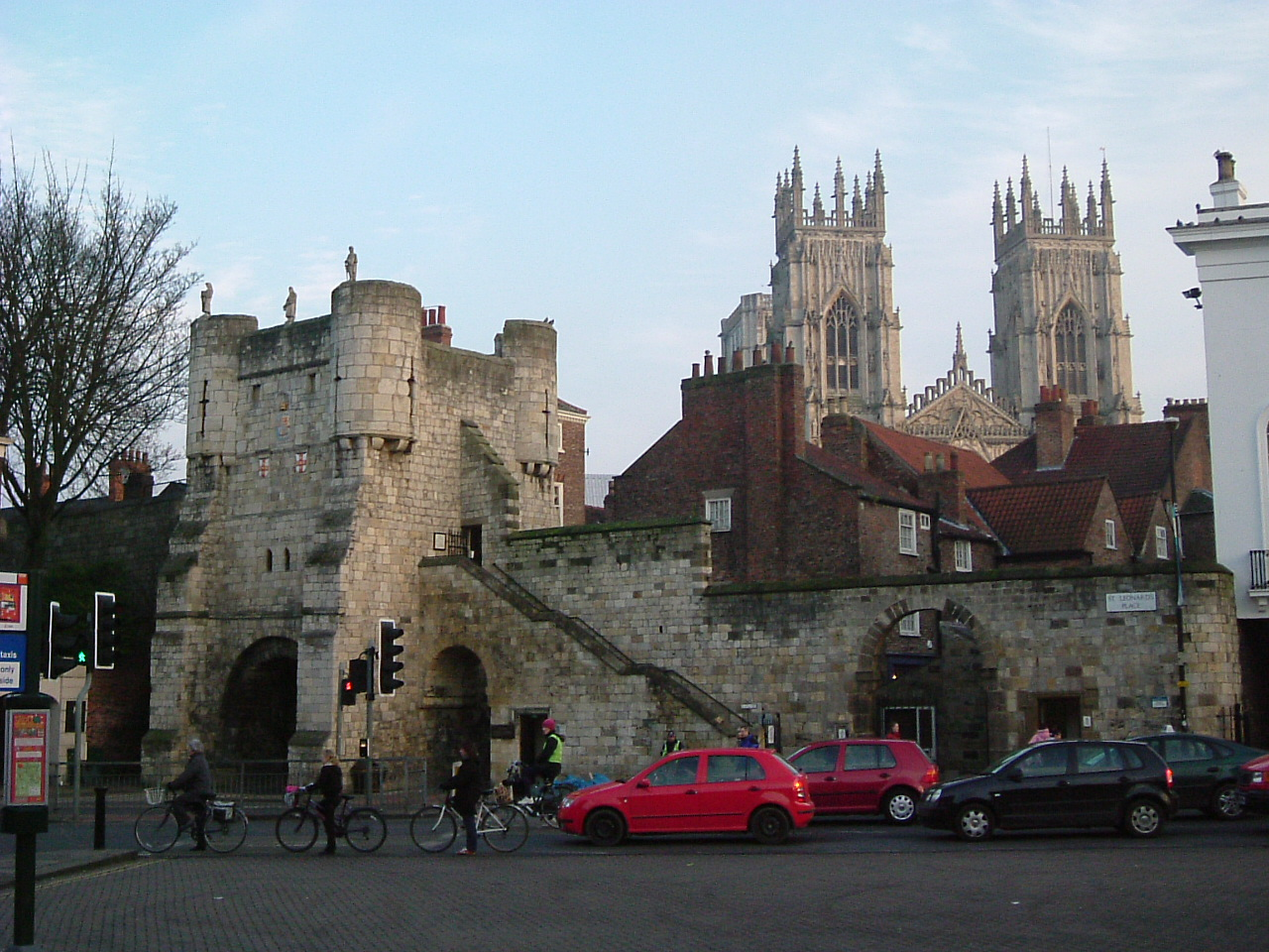 Bootham Bar, part of York city walls